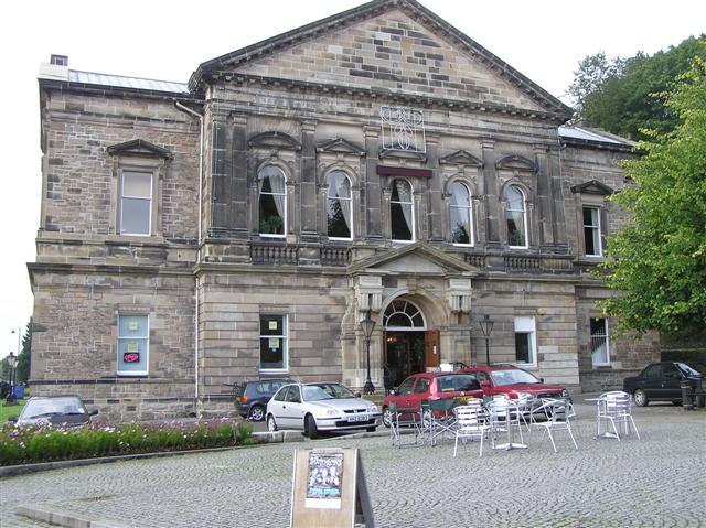 Albert Halls, Stirling Looking south-west